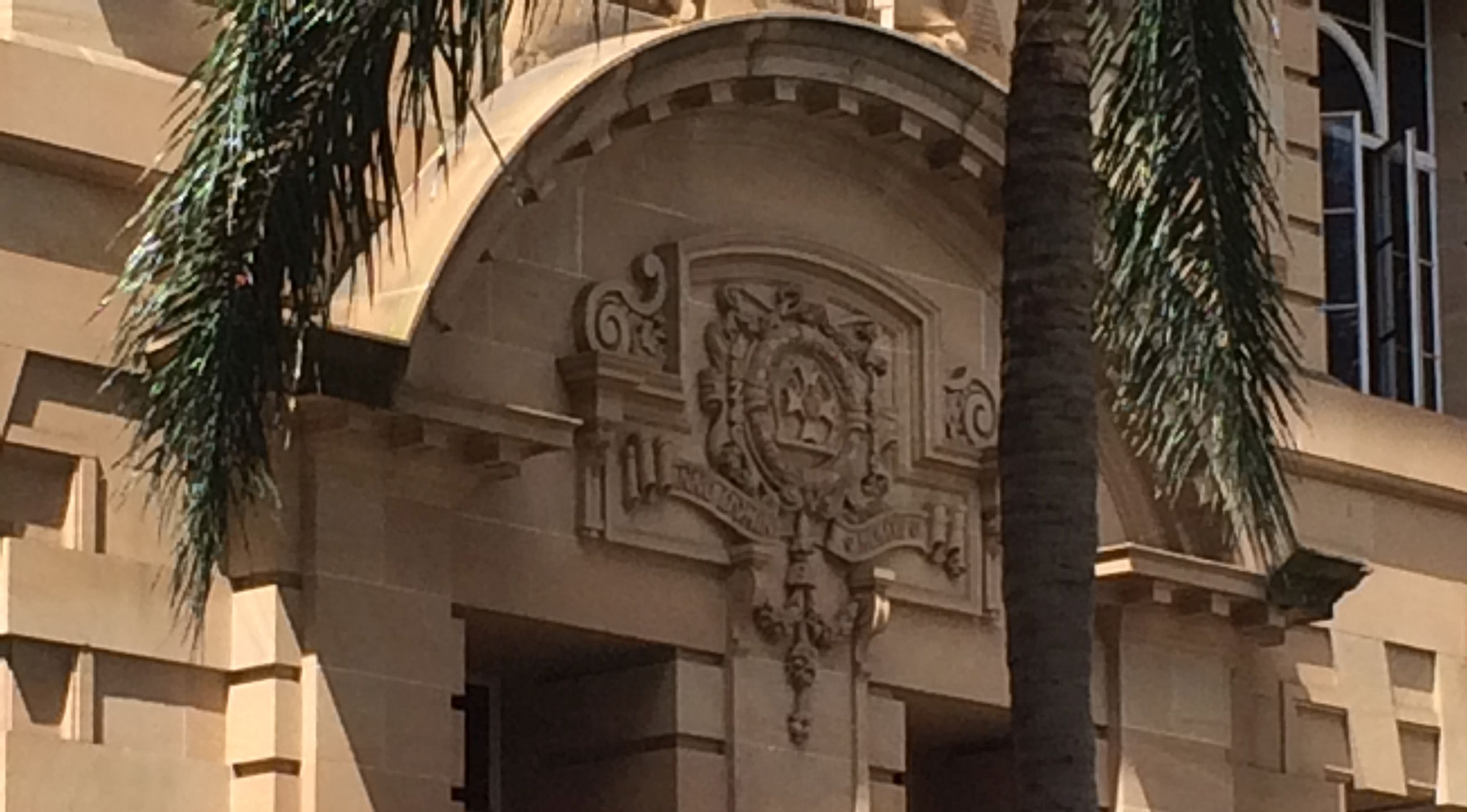 Close-up detail of Family Services Building, 2015